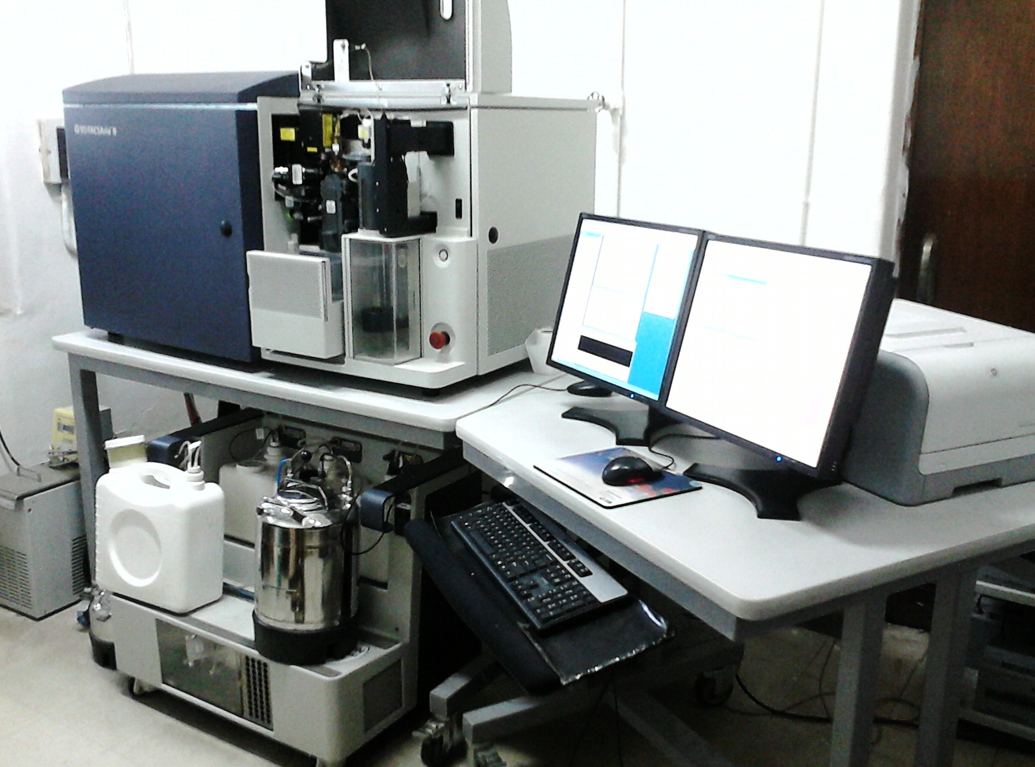 Flow Cytometry at NIN-ICMR